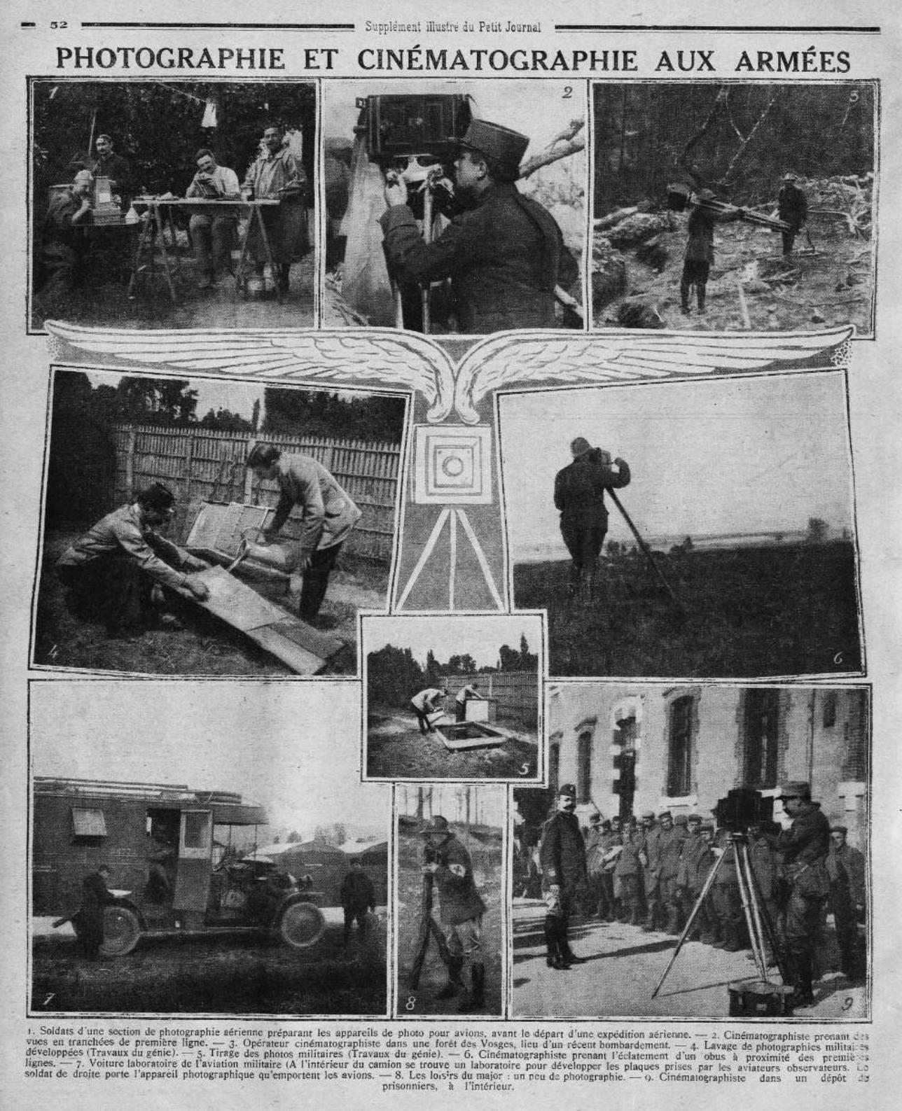 Supplement Illustrated Diary with a series of photographs about the film unit of the French army in February 1918.